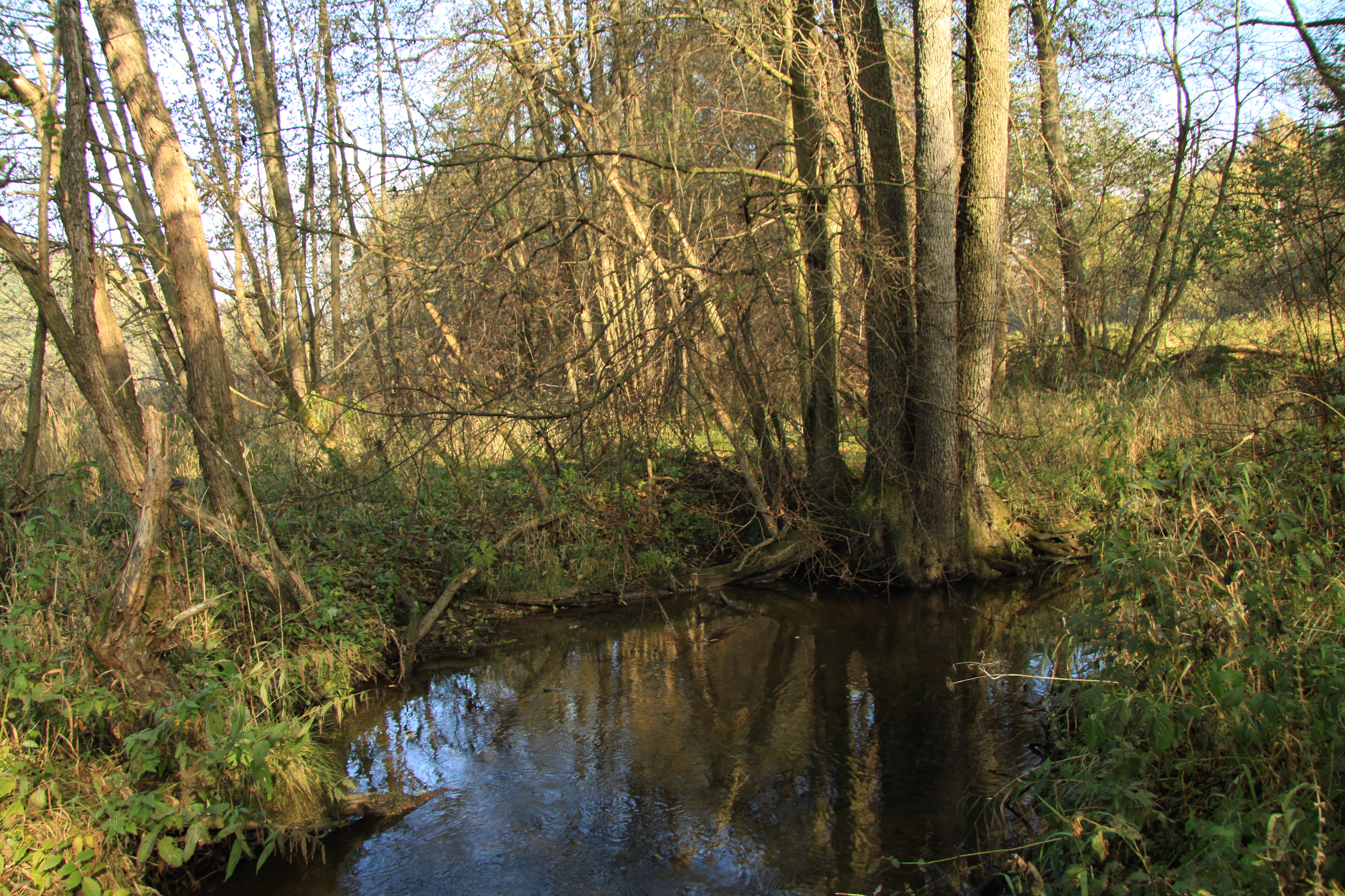 Křemžský creek in nature reserve Dobročkovské hadce near Dobročkov village, Prachatice District, Czech Republic Project: Chráněná území.